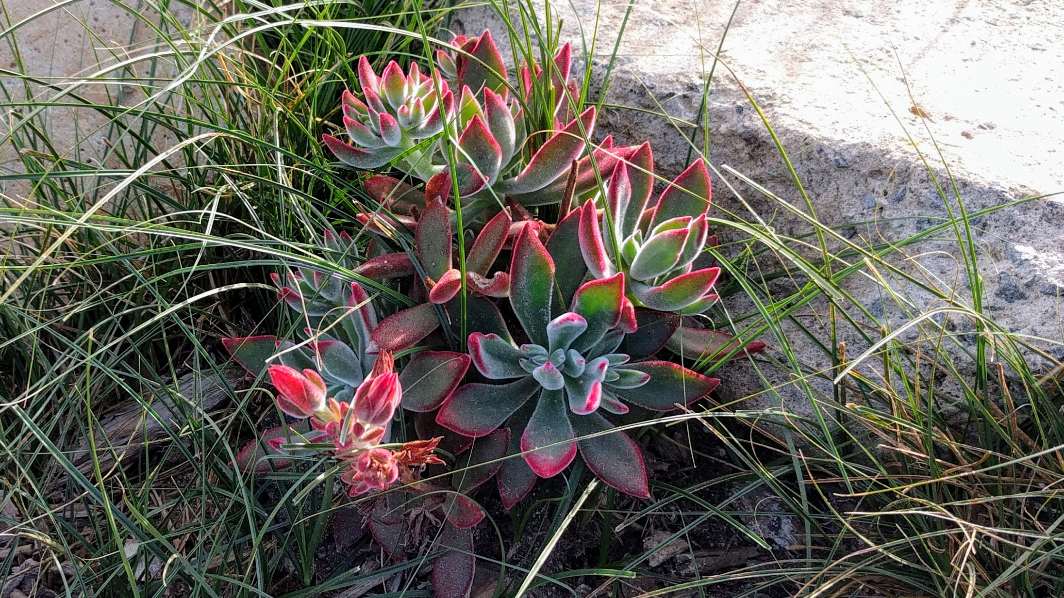 Echeveria harmsii ‘Ruby Slippers’